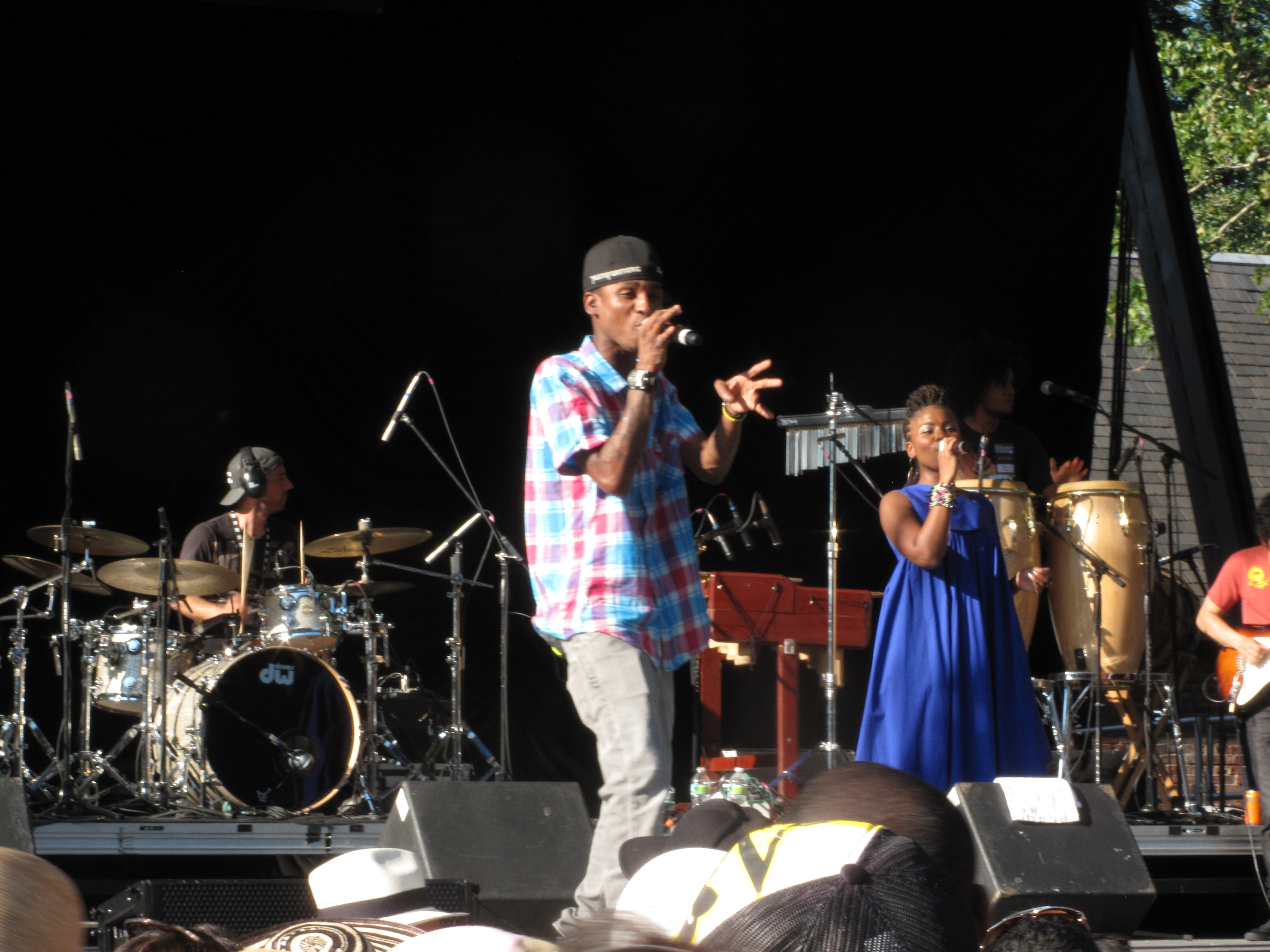 Choc Quib Town performing at Central Park Summer Stage. NYC, 2011